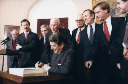 President Ronald Reagan, Baker, Lyng, Naylor, Miller, Leahy, Lugar, Karnes, Dingell, Markey, Jeffords, Combest, Schuette, Baker, Duberstein, Griscom, Fitzwater, Risque, Range, Dyer, Turner, Kranowitz, Harlow, Wright, Wheeler, Dawson, (Not in all Photos) (3-23) Signing Ceremony for HR 3030, The Farm Credit Act of 1987